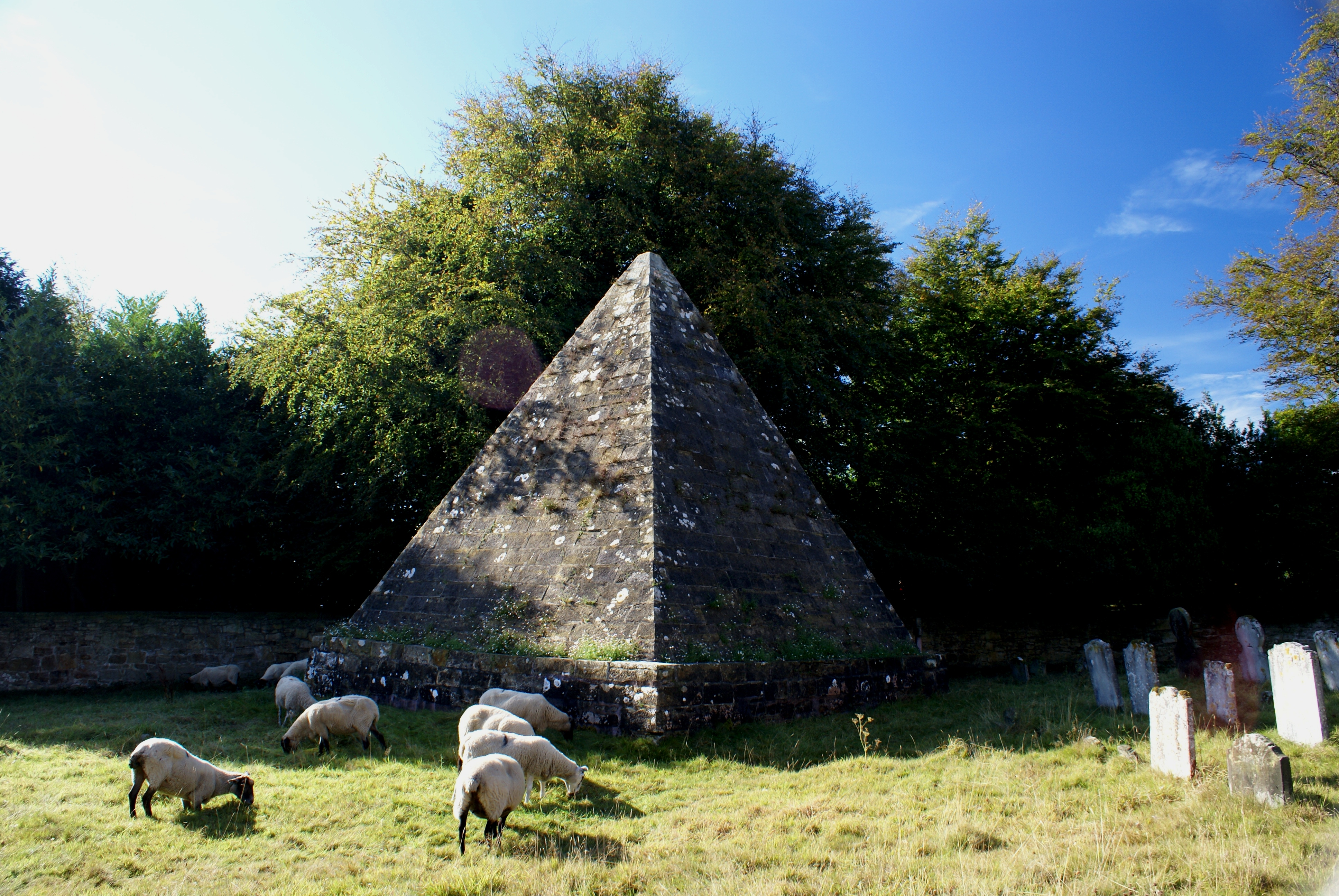 "Mad Jack" Fuller's tomb in Brightling Churchyard, East Sussex.